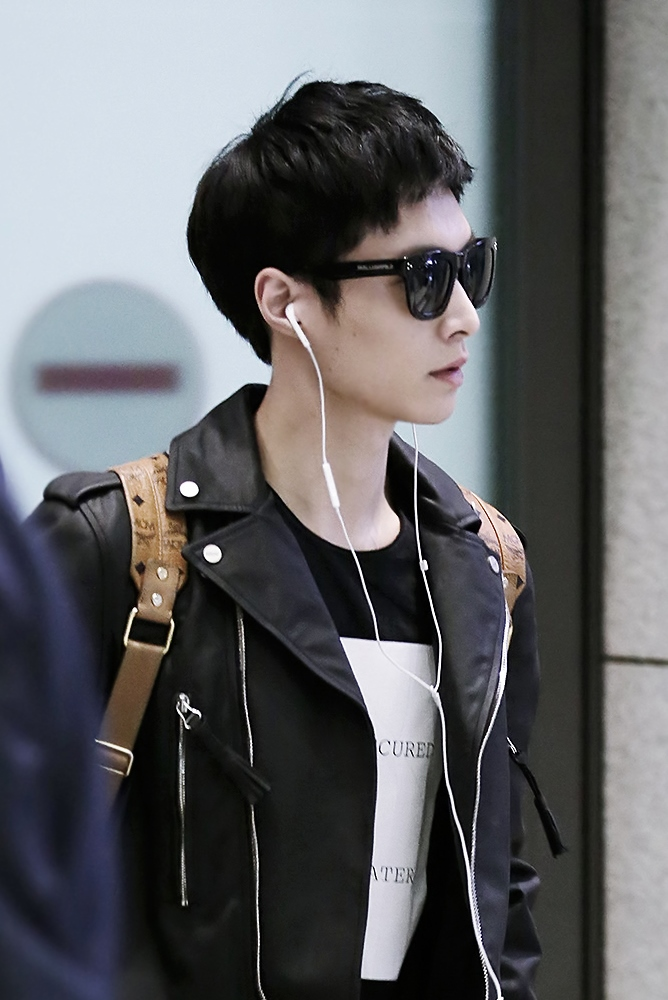 Lay Zhang at Incheon Airport in April 1, 2015.